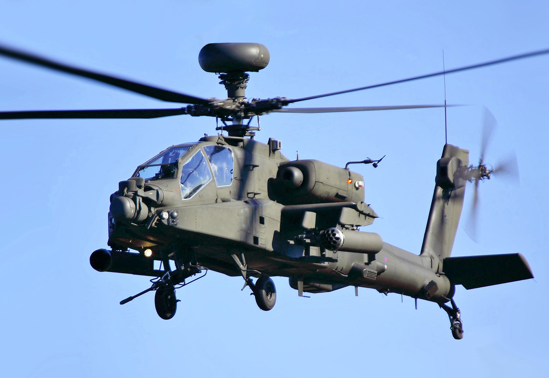 AH64D Longbow Apache - Duxford Autumn Airshow 2010